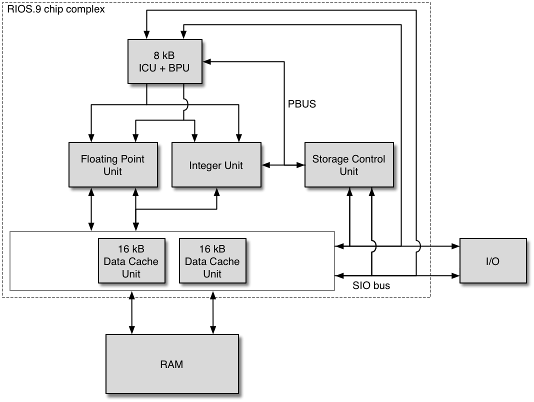 A schematic overview of the chip complex of a POWER1 (RIOS.9) processor.